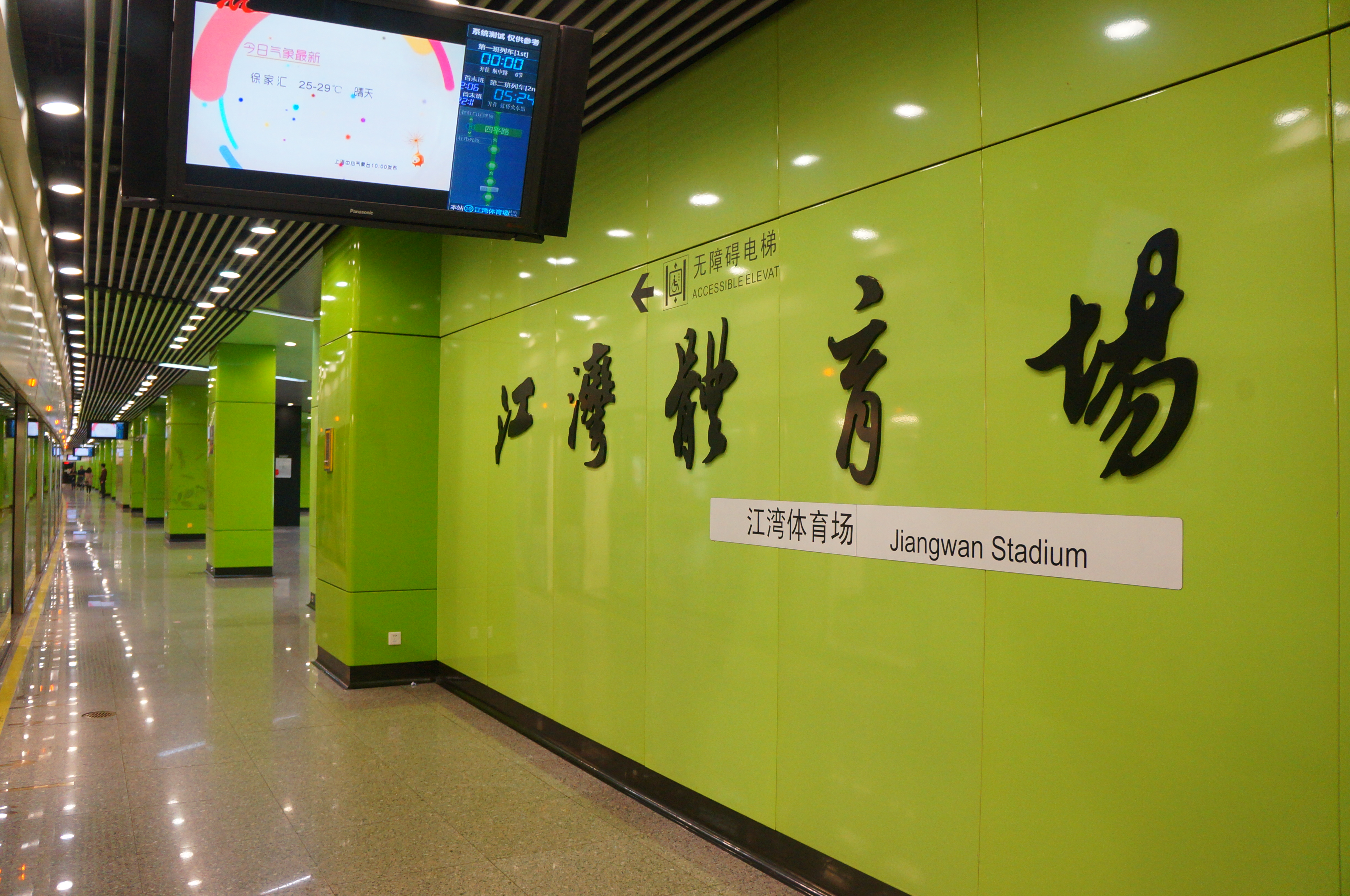 201704 Nameboard of Jiangwan Stadium Station